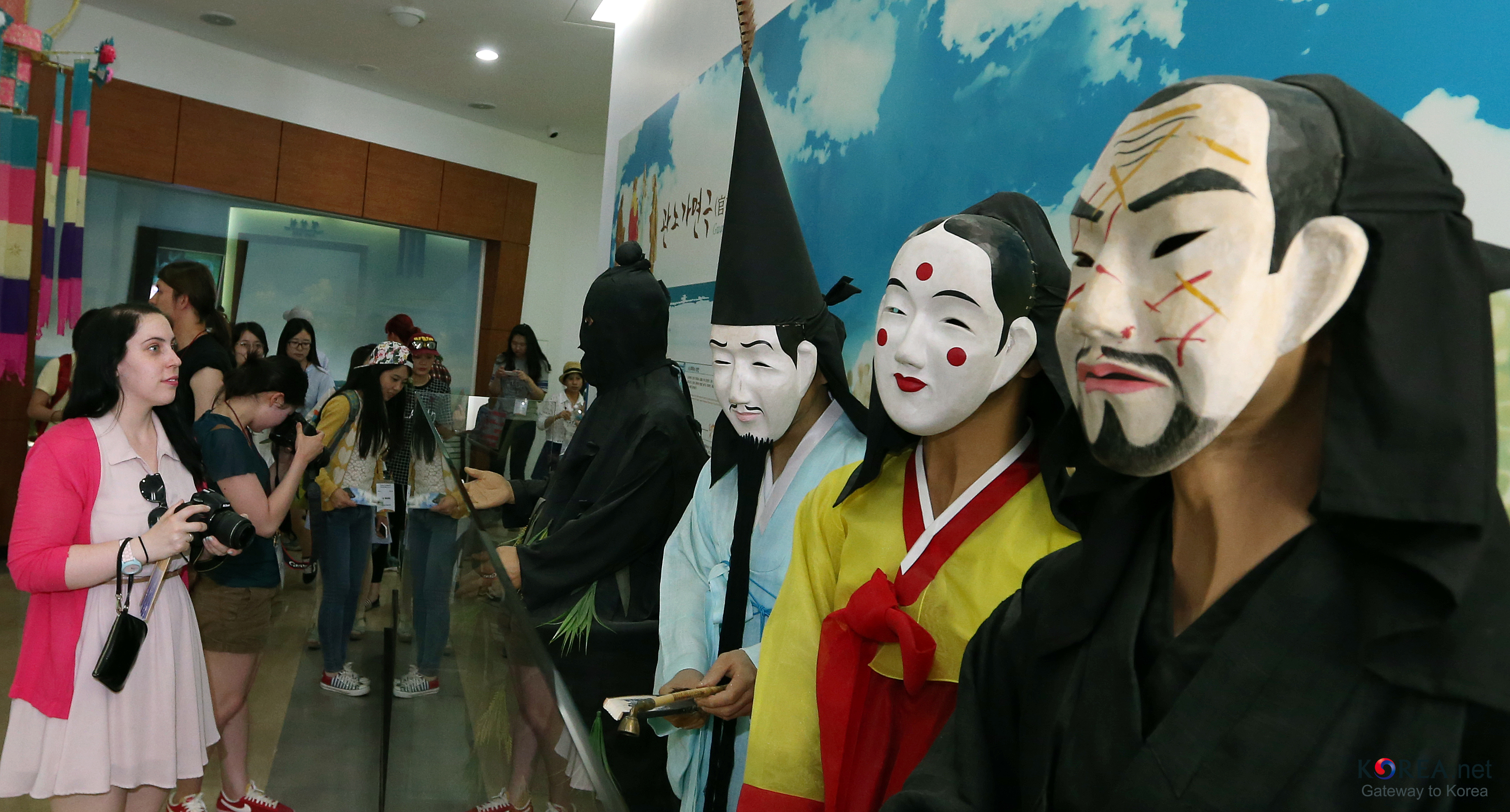 Exploring The UNESCO World Heritage in Korea 1st Program – ‘The Healing Festival Lasting 1,000 years’ Gangneung Danoje Festival & Jangneung(One of Royal Tombs of Joseon Dynasty) Gangneung Dano Culture Center June 1, 2014 Gangneung-si, Gangwon-do Ministry of Culture, Sports and Tourism Korean Culture and Information Service ( Official Photographer: Jeon Han This official Republic of Korea photograph is licensed as free content, so while restrictions such as personality or privacy rights may apply, in general, manipulations are allowed. If you want a photograph without a watermark, you may ask via Flickr e-mail. 유네스코 세계문화유산 등재 유•무형 한국문화유산 심층탐방 첫 번째 프로그램 - ‘천년을 이어온 힐링 축제’ 강릉단오제와 장릉 강릉단오문화관 2014-06-01 강원도 강릉시 문화체육관광부 해외문화홍보원 코리아넷 전한